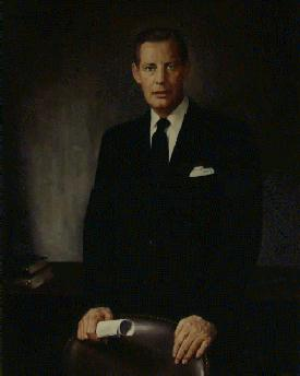 US Labor Secretary and Massachusetts Governor Maurice J. Tobin